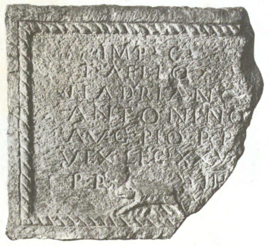 RIB 2197. Distance Slab of the Twentieth Legion Valeria Victrix from The Roman Stones